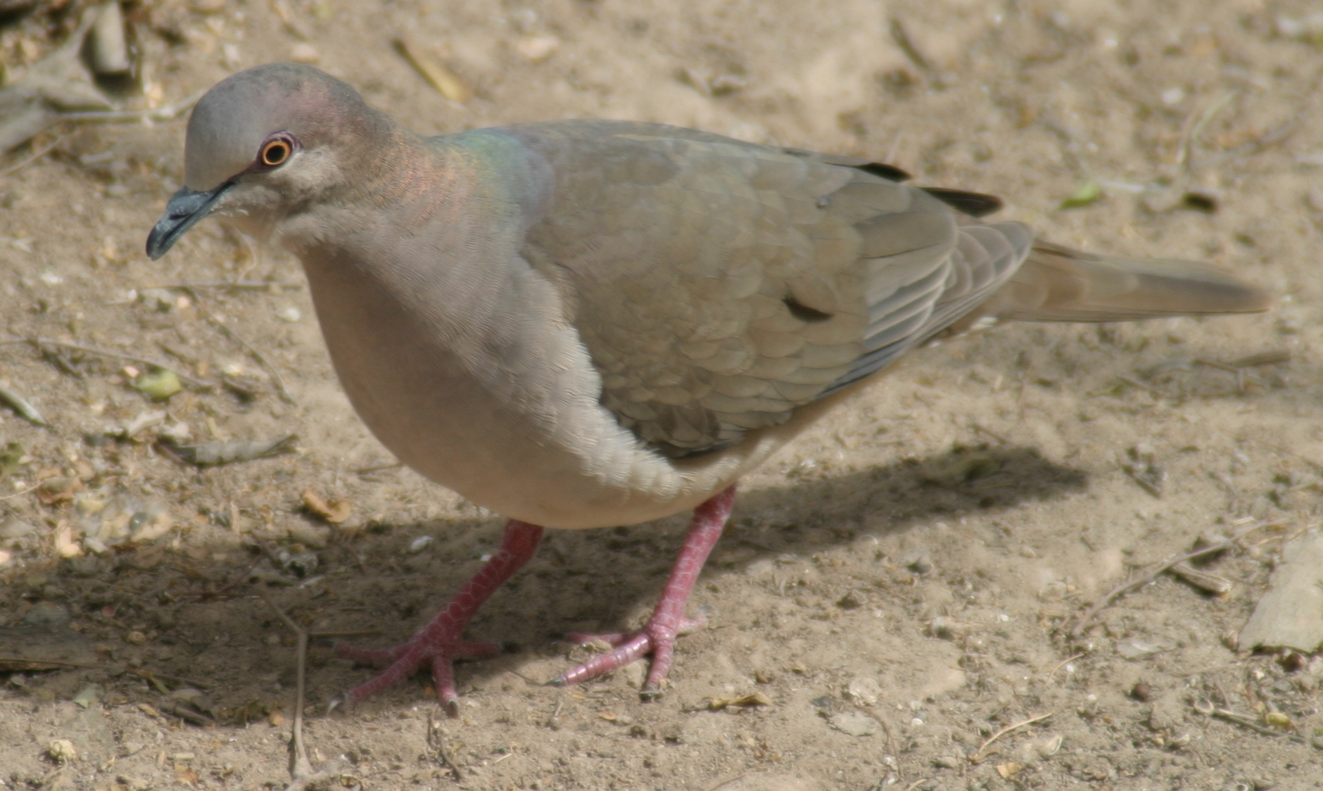 I, Tim Whitehouse, photographed this image.